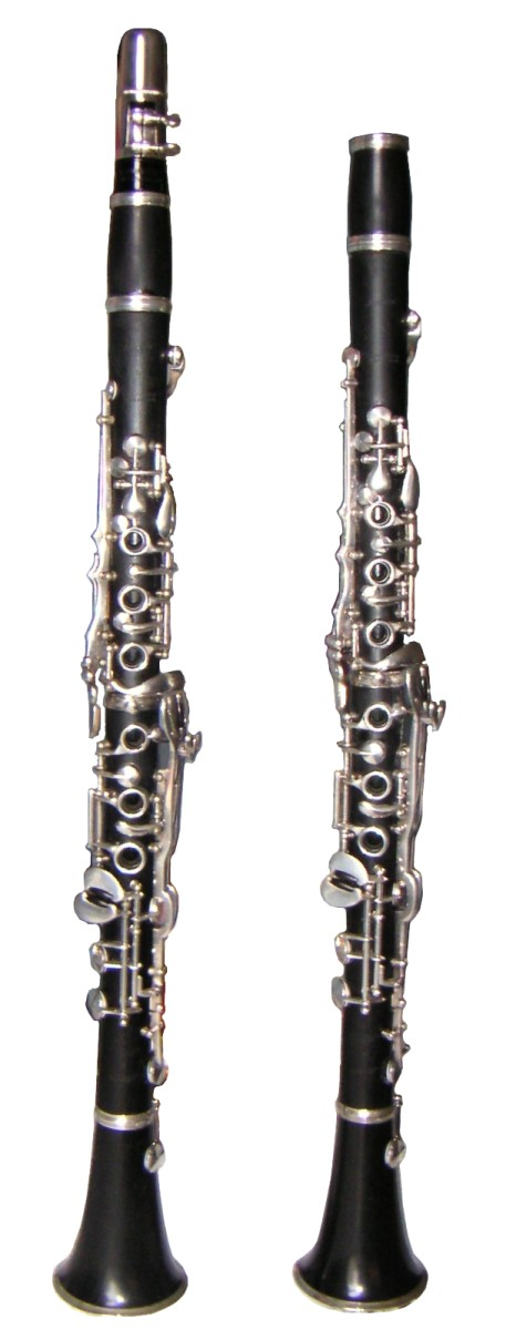 Bb- and A-Clarinet, German System (with Mouthpiece on the Bb-Clar)